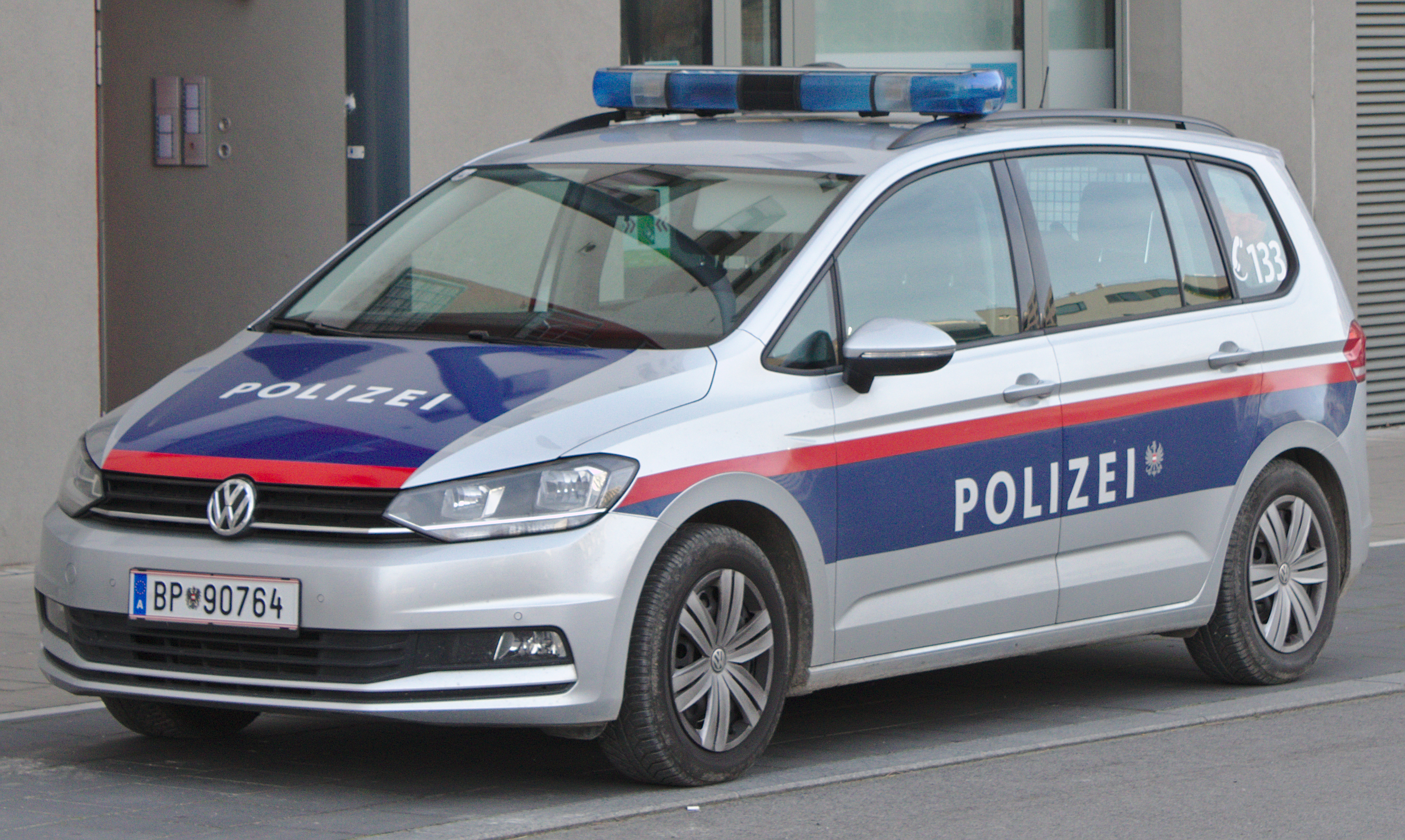 Volkswagen Touran II in Vienna